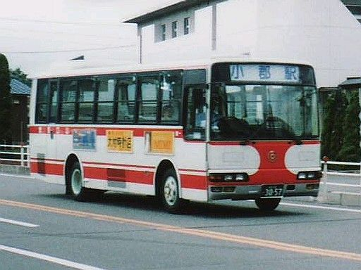 Company:Yamaguchi City Transportation Bureau Use:transit bus Car license:山口22 う 3057 Chassis manufacturer:Mitsubishi Motors Coachbuilder:Mitsubishi FUSO Bus Manufauturing Location:in Yamaguchi City, Yamaguchi, Japan. Scanned from negative color print